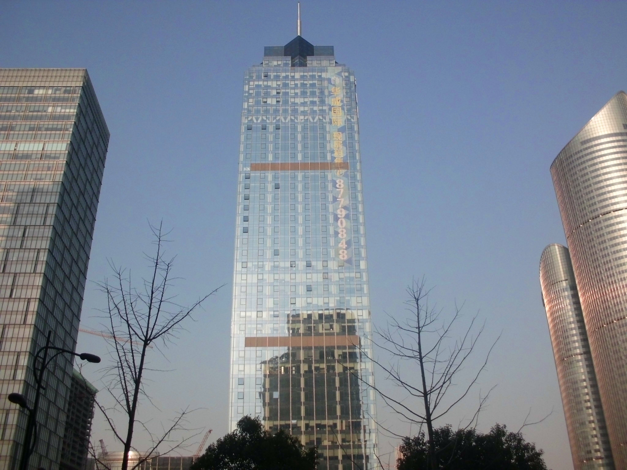 Huacheng mansion